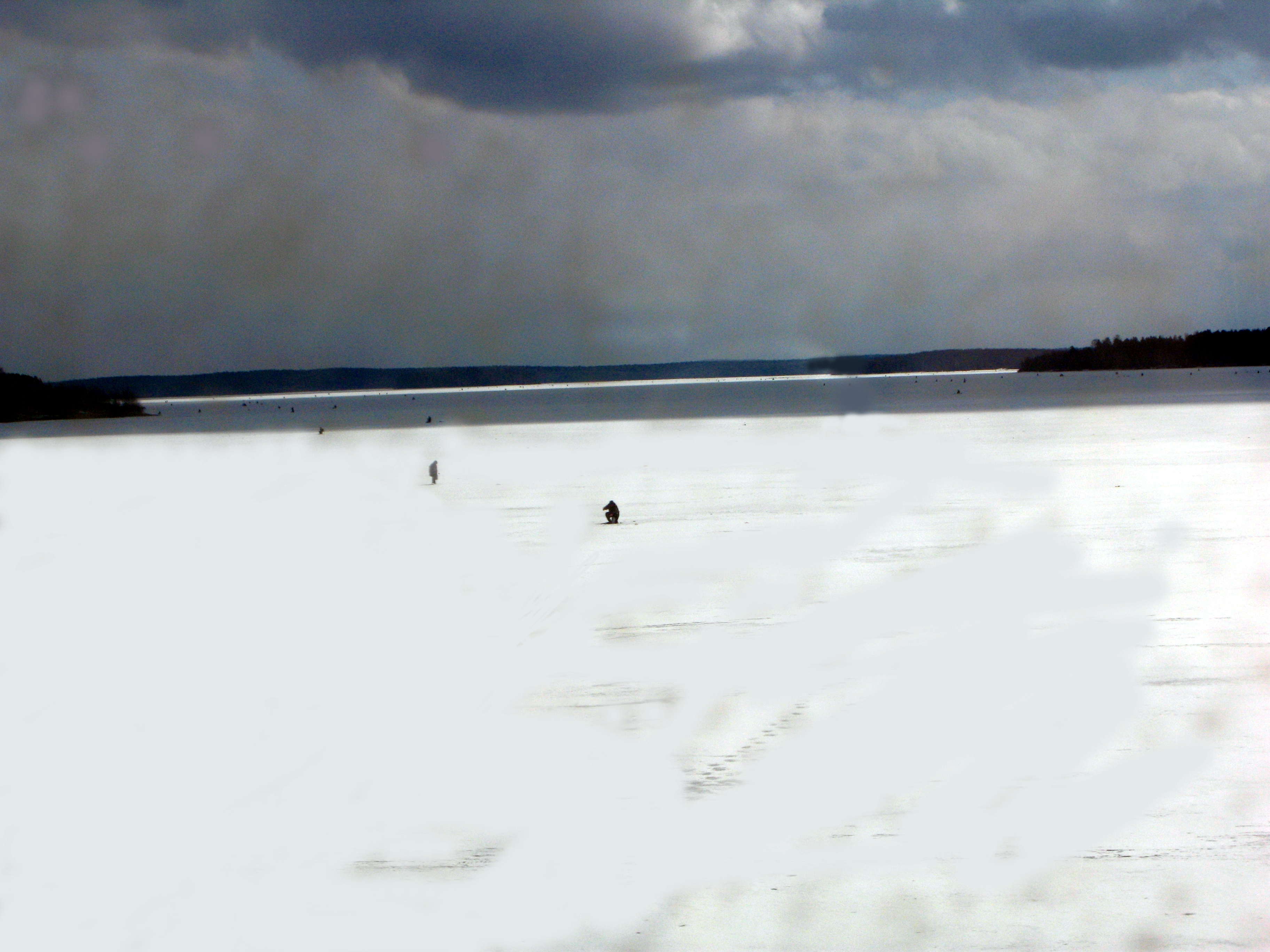 Šartaš lake, Russia.